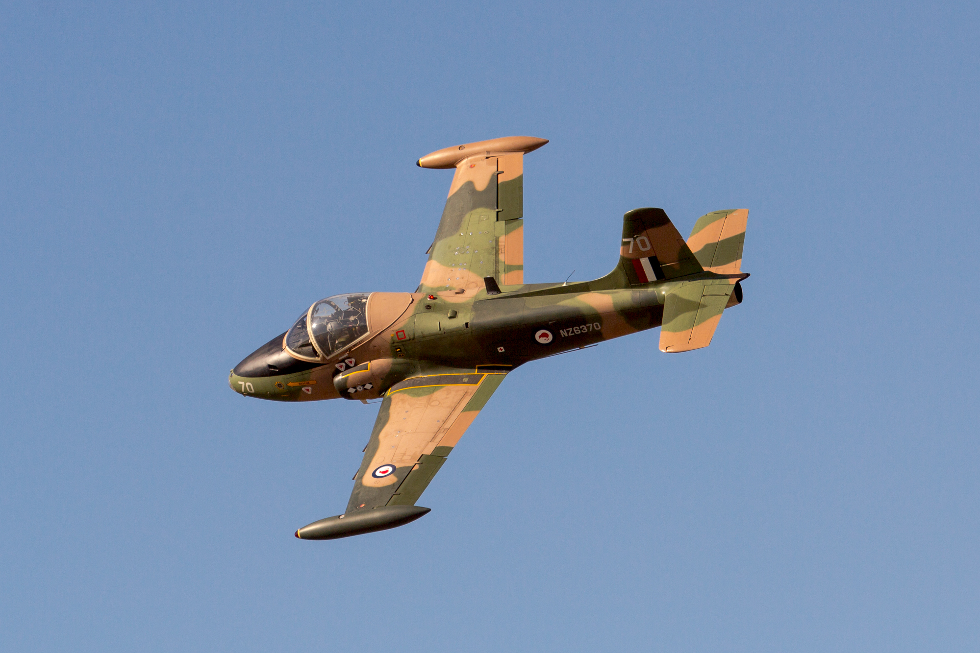 Classic Fighters 2015 - BAC Strikemater NZ6370